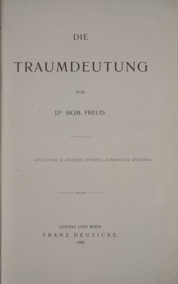 Title page of the original German edition of Sigmund Freud's Die Traumdeutung, Franz Deuticke, Leipzig & Vienna, 1899. (Not 1900, see the article!)